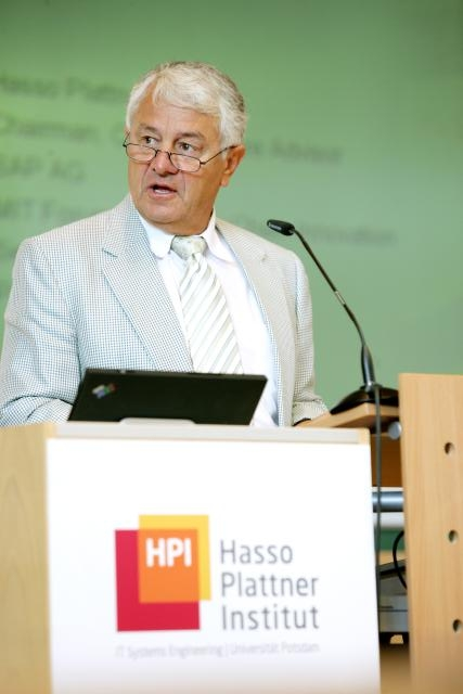 Prof. Dr. Hasso Plattner at the Hasso Plattner Institute